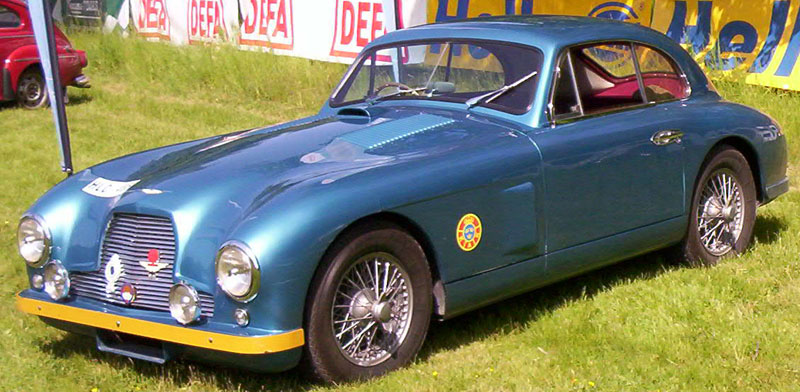 Aston Martin DB2 Coupé 1951